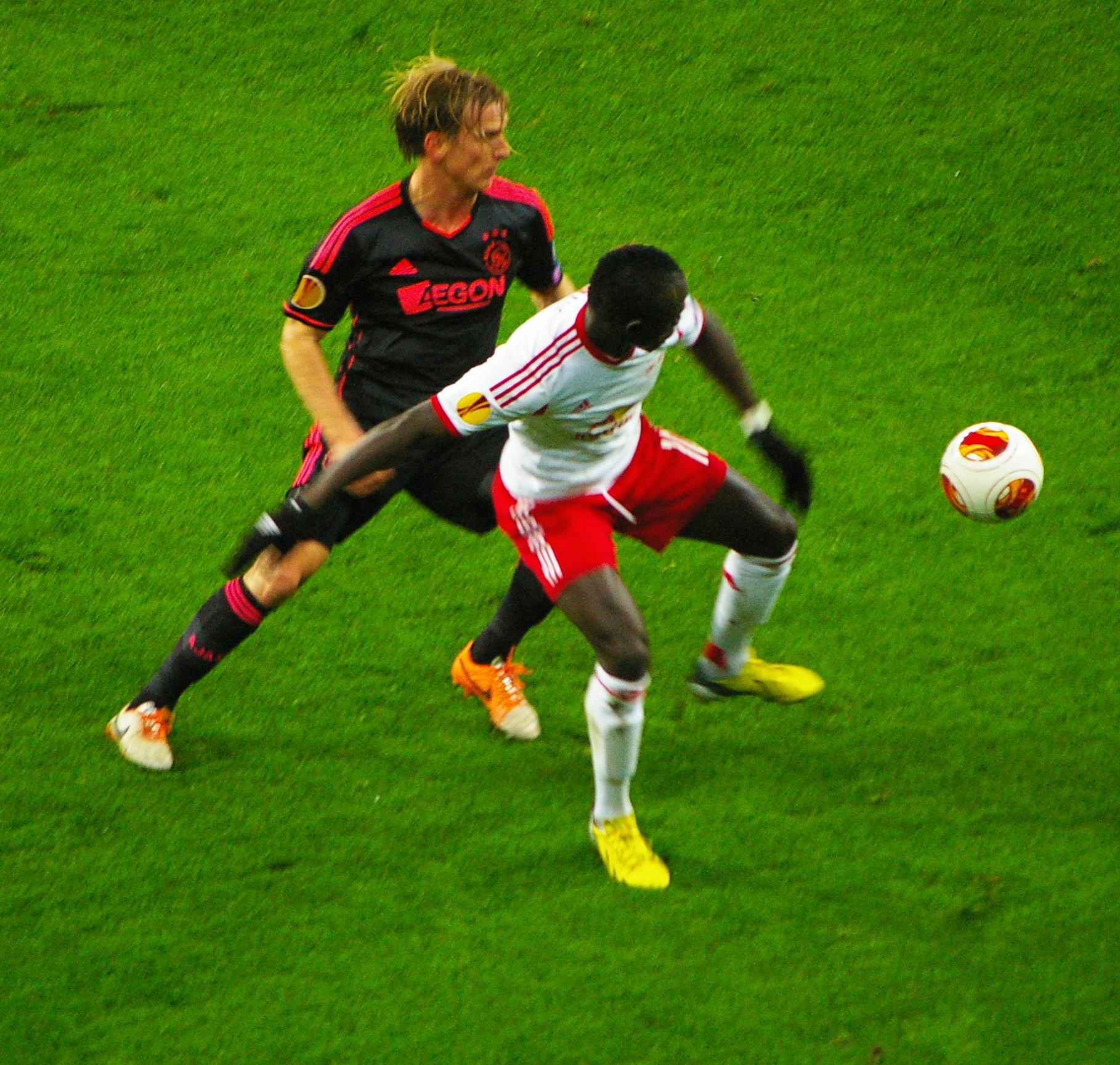 Euro league round of 32 2013/14